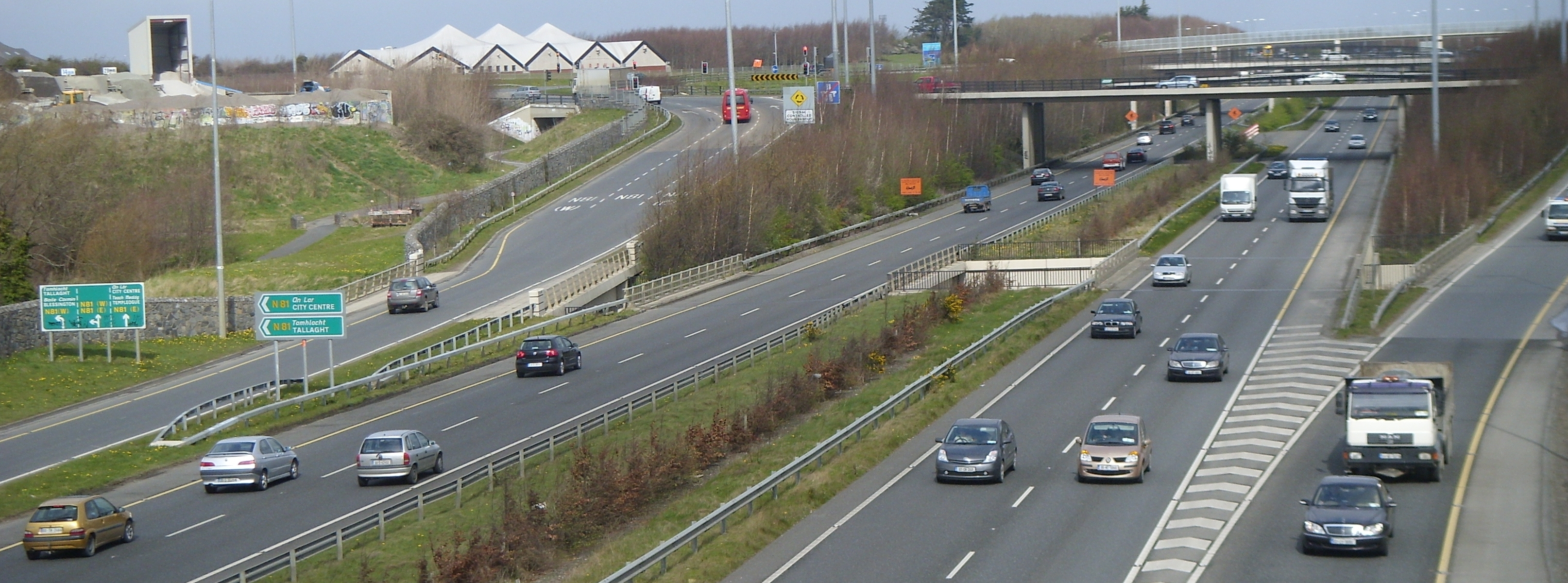 M50 motorway in Ireland.